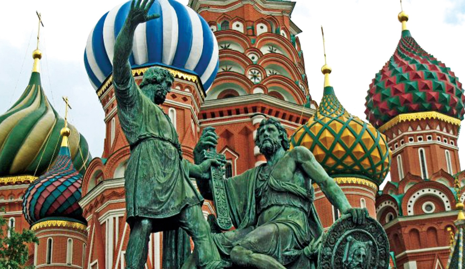 Cover image of: Marlène L., The "Russian World": Russia’s Soft Power and Geopolitical Imagination — Washington: Center on Global Interests, 2015.